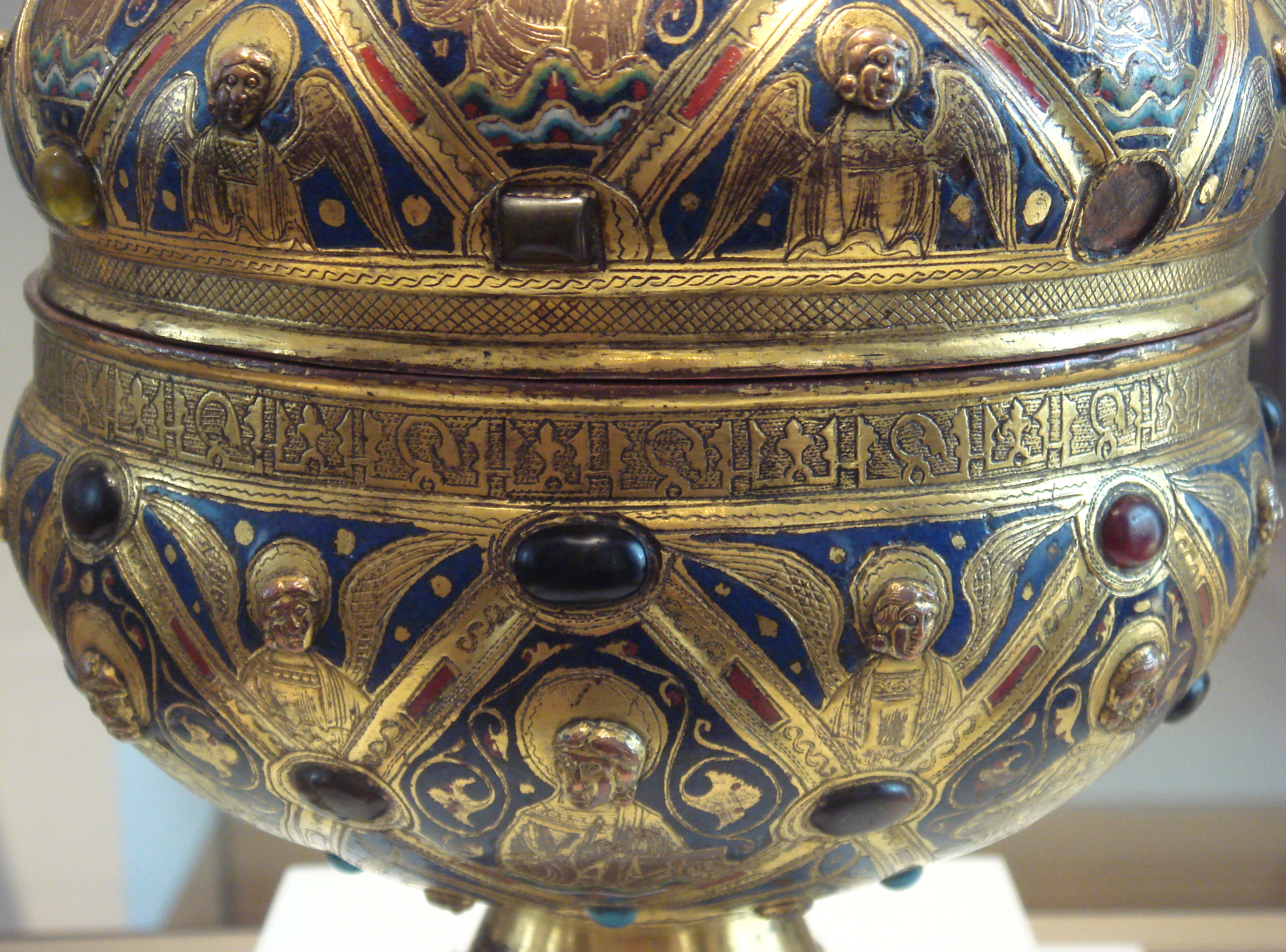 Limoges_enamel_ciborium_pseudo_Kufic_circa_1200, detail